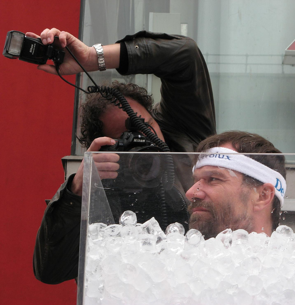 Demonstration 'Iceman' Wim Hof, March 24, 2007, Rotterdam. About Wim Hof........... 'The Iceman' One of Wim's world record attempts took him to the North Pole, where he held his breath for about 6 minutes and 20 seconds below the ice. Image courtesy of Innerfire website In January this year, Wim Hof ran a half Marathon (21 km) above the polar circle in Finland. He wore only a pair of shorts and no shoes. The ground (snow) temperature was 35 below. In a few months time, he'll try something similar on Everest's north side. The expedition, led by Dutch Werner de Jong, will try to set a new world record as Wim attempts to climb parts of Everest wearing only shorts. Everest altitude training: Hanging by middle finger between hot air balloons This is not your regular stunt. Wim already has 9 world records, and has trained hard for many years to withstand cold, much like some monks do in Tibet. Wim can actually regulate his core heat to control the temperature of his skin. Something of a medical enigma, Wim is able to withstand cold that could kill or seriously injure other people. On Everest, Wim will also put to use his free style climbing skills - which he once demonstrated hanging between 2 hot air balloons by his middle finger at an altitude of 1500 meters. Once back inside the basket, Wim finished by climbing to the top of the balloon.